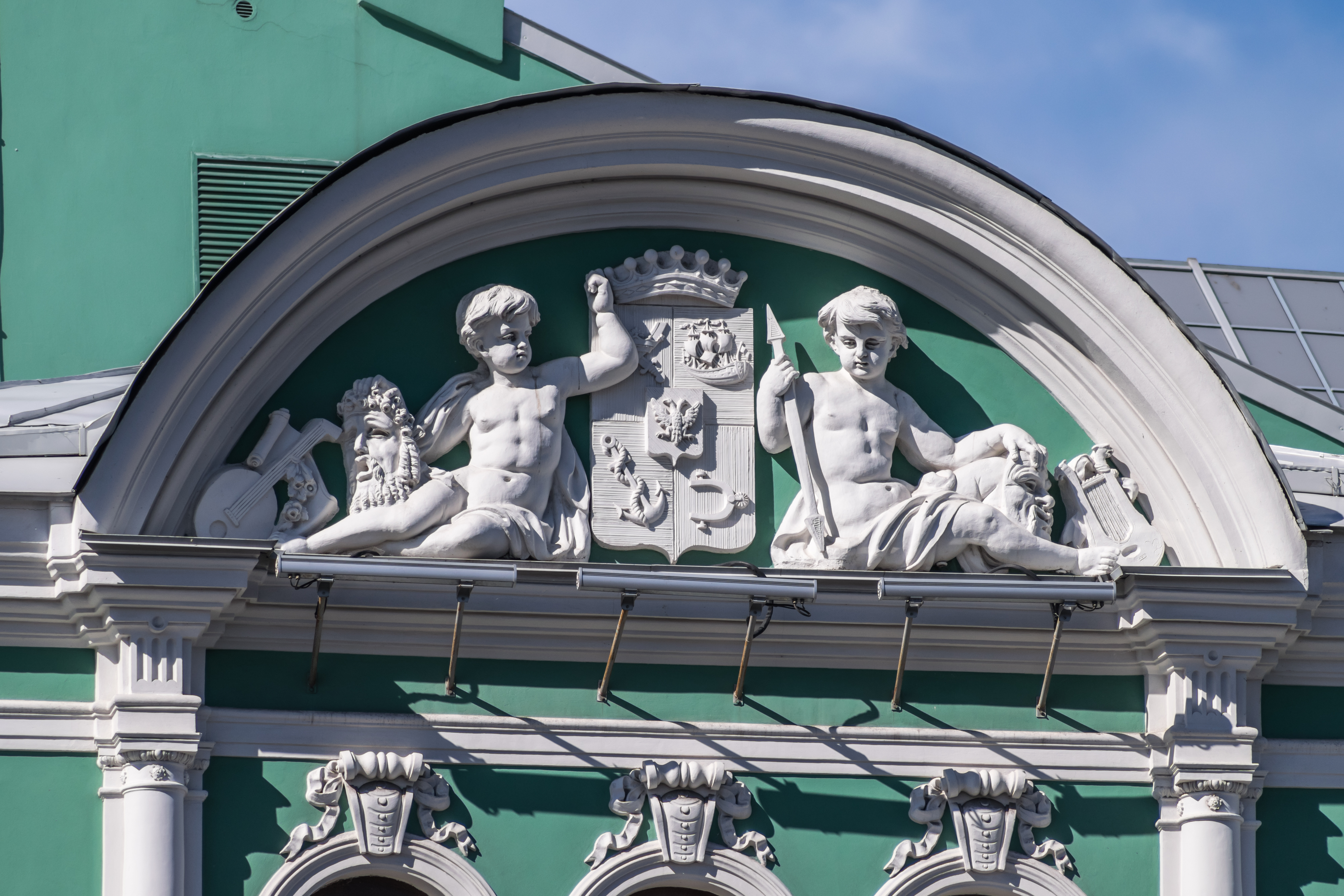 Tovstonogov Great Drama Theater in Saint Petersburg